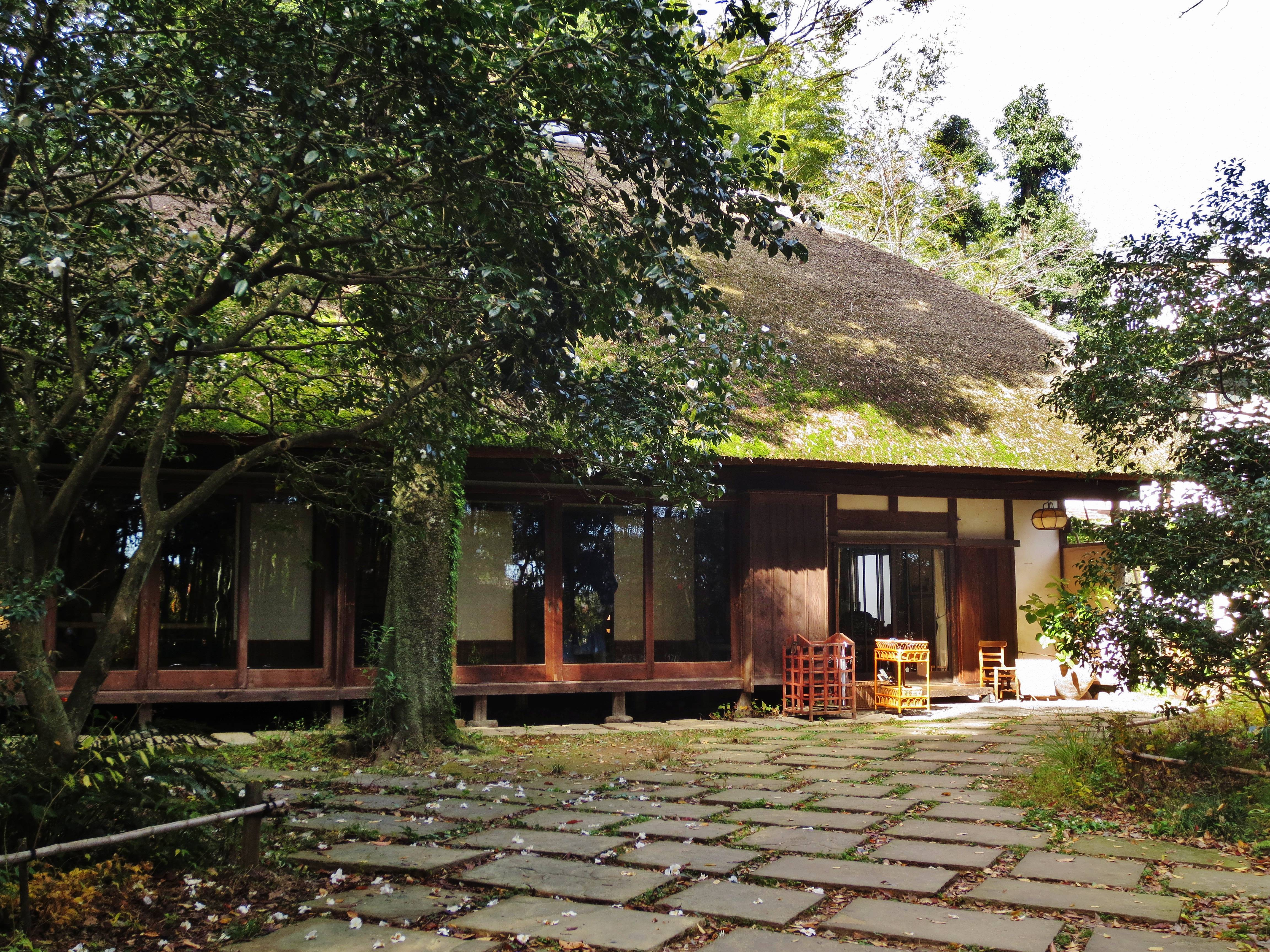 Buaisō.